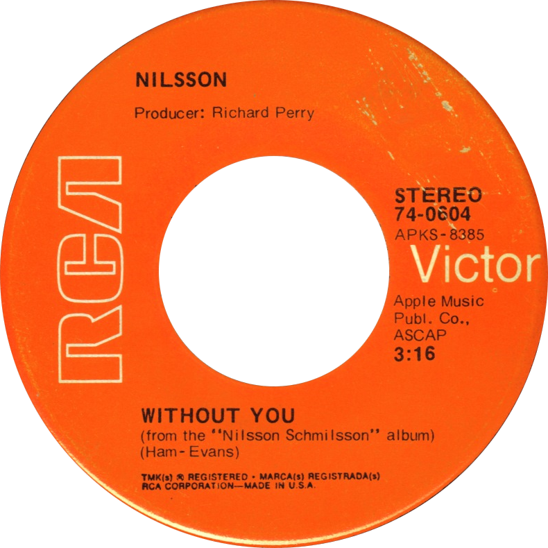 Side-A label of the US vinyl single release "Without You" by Harry Nilsson, originally sung by Badfingers